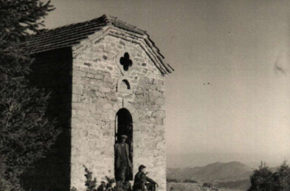 Church in Momchilovtsi, Bulgaria